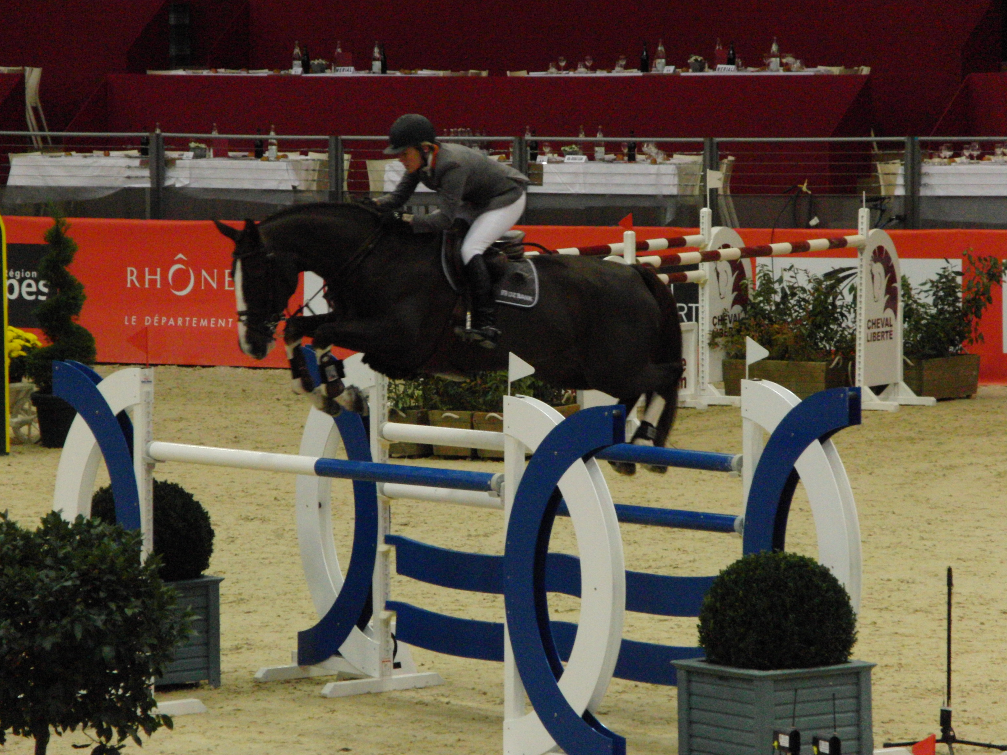 Meredith Michaels-Beerbaum and Kismet - CSIW5* Prix Equidia - Equita'Lyon, France